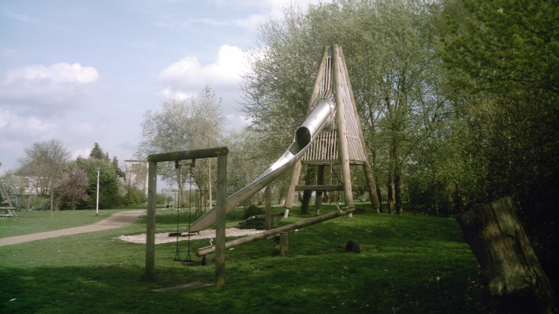 Jubilee's Garden ("Jubiläumsgarten") in Bockert, Viersen, Germany